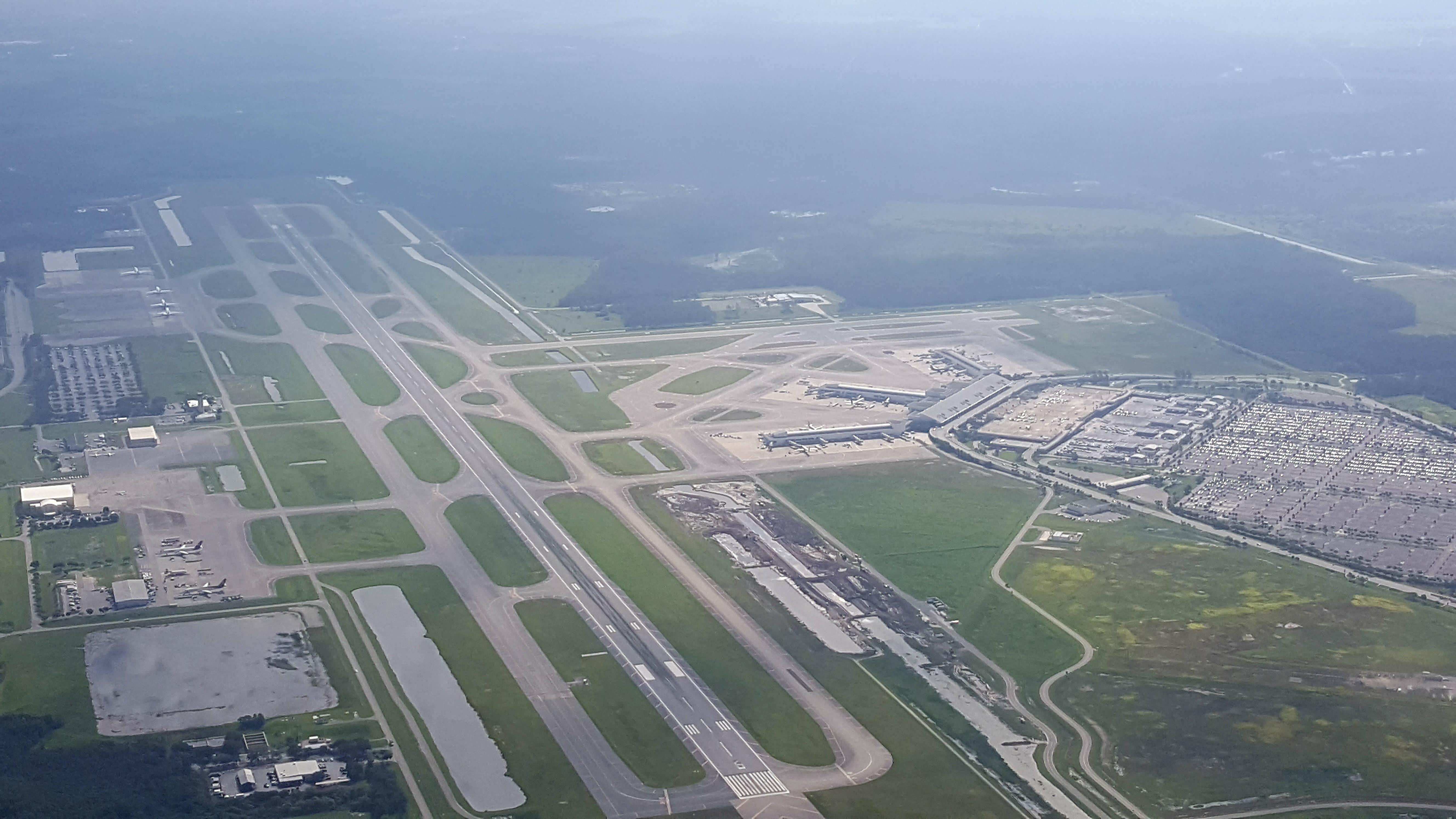 RSW Airport from the air